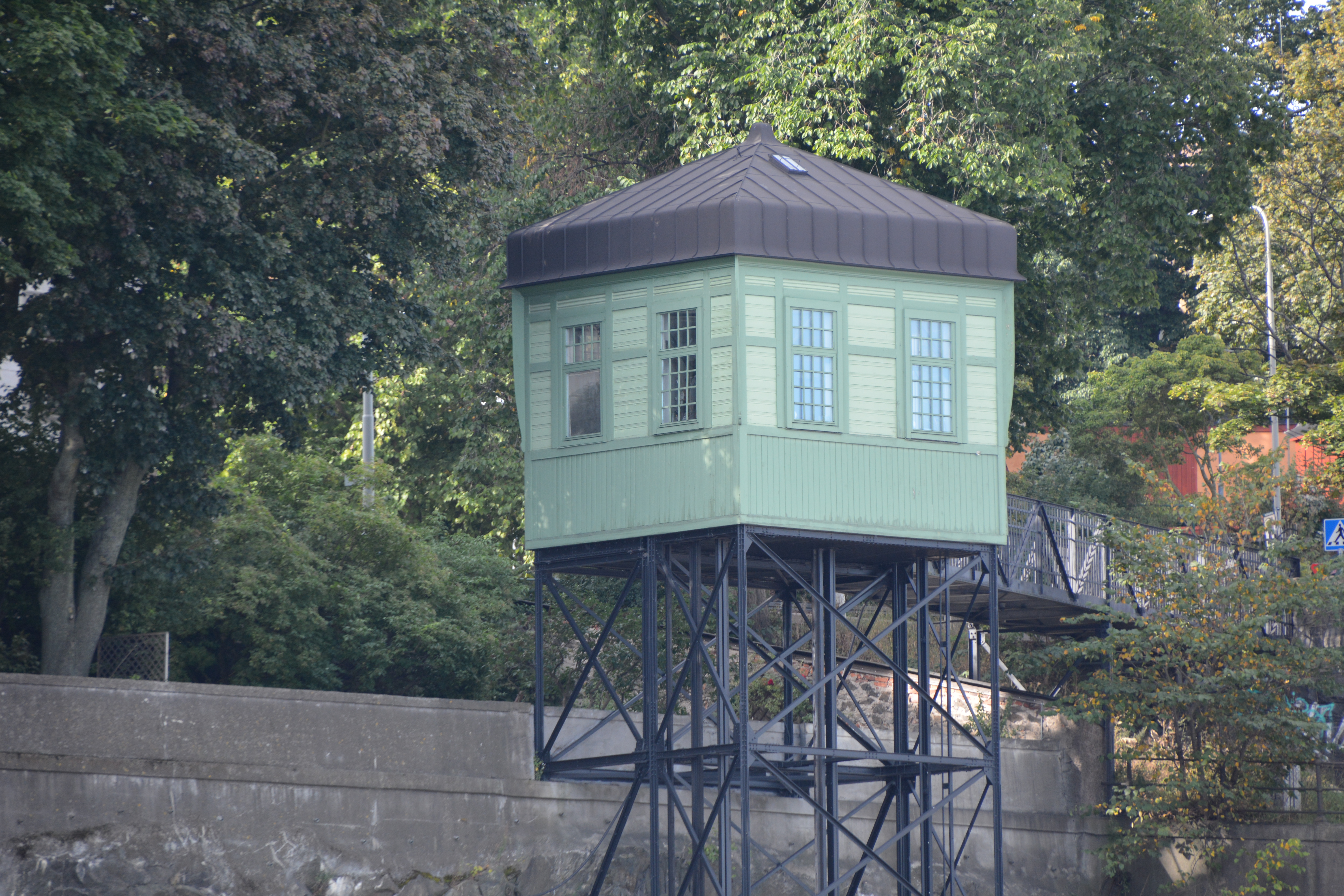 F.d. Carl Antons ateljé i Stadsgårdshissen, Stockholm